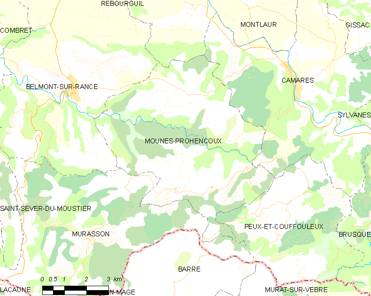 Map commune FR insee code 12192.png - Mounes-Prohencoux